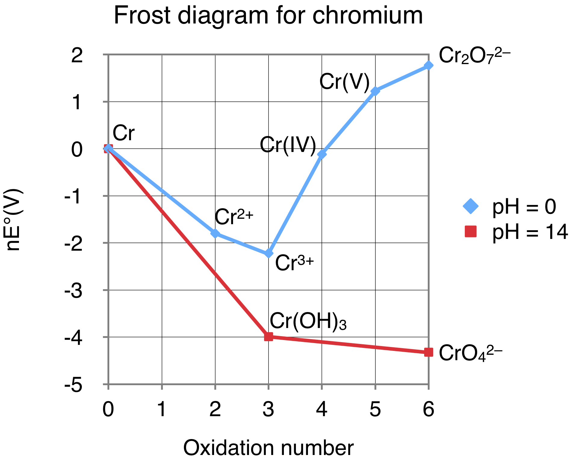 Frost diagram for chromium. Data from Shriver & Atkins' Inorganic Chemistry, 5th Edition, 2010